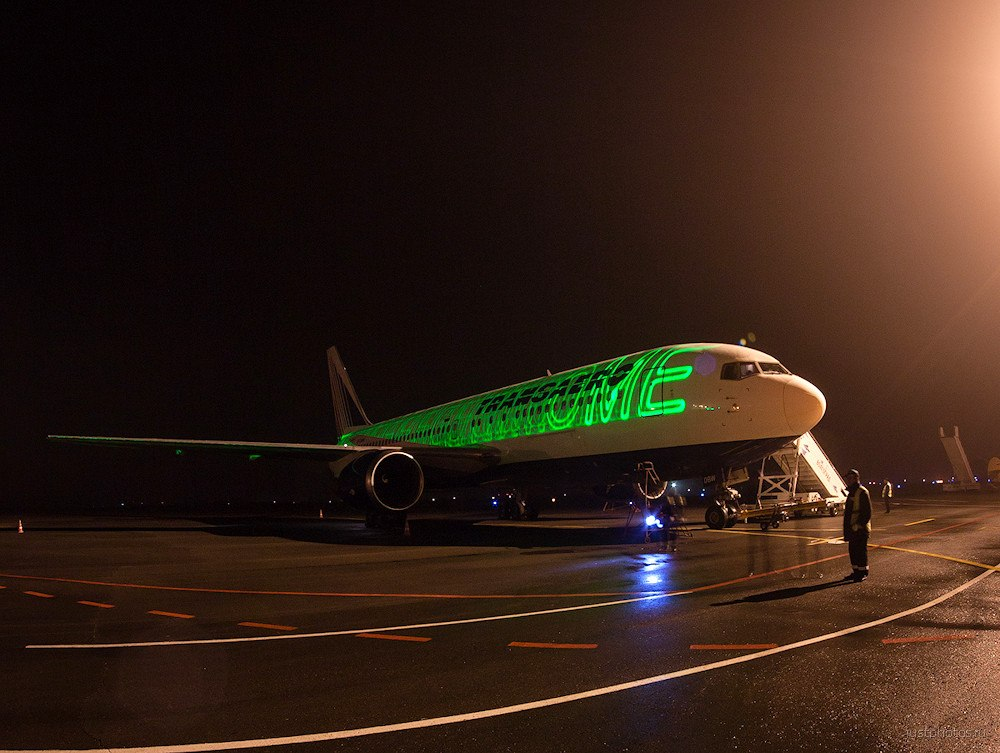 Boeing 767 arrived at Volgograd